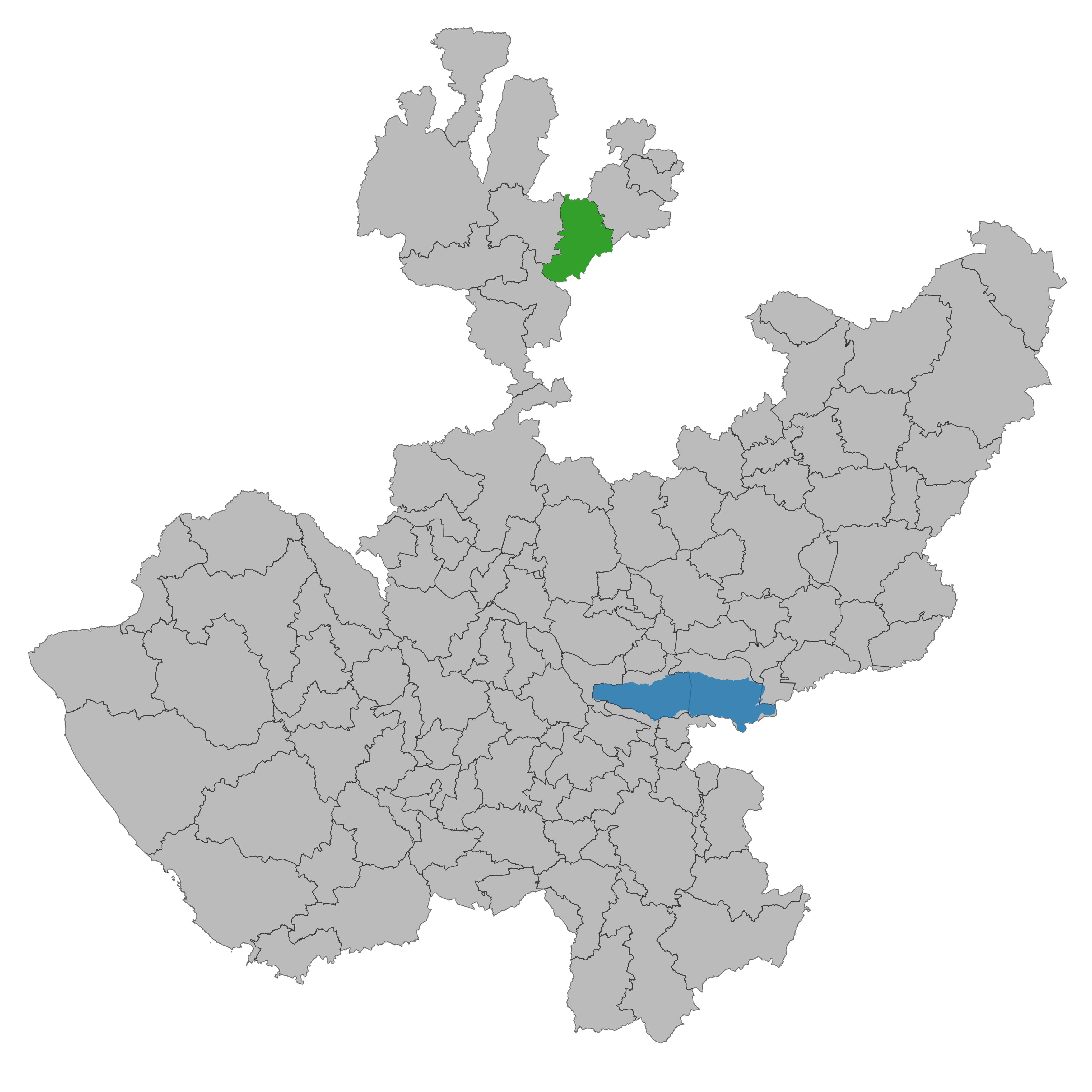 Municipality of Jalisco. Prepared with the software QGIS version 2.8.2 Wien & with information of SCINCE 2010 version 05/2013